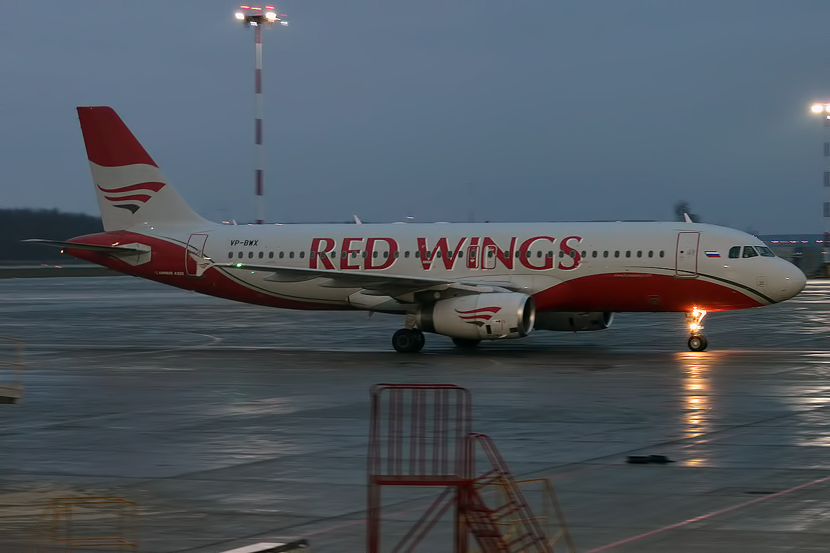 Red Wings, VP-BWX, Airbus A320-232